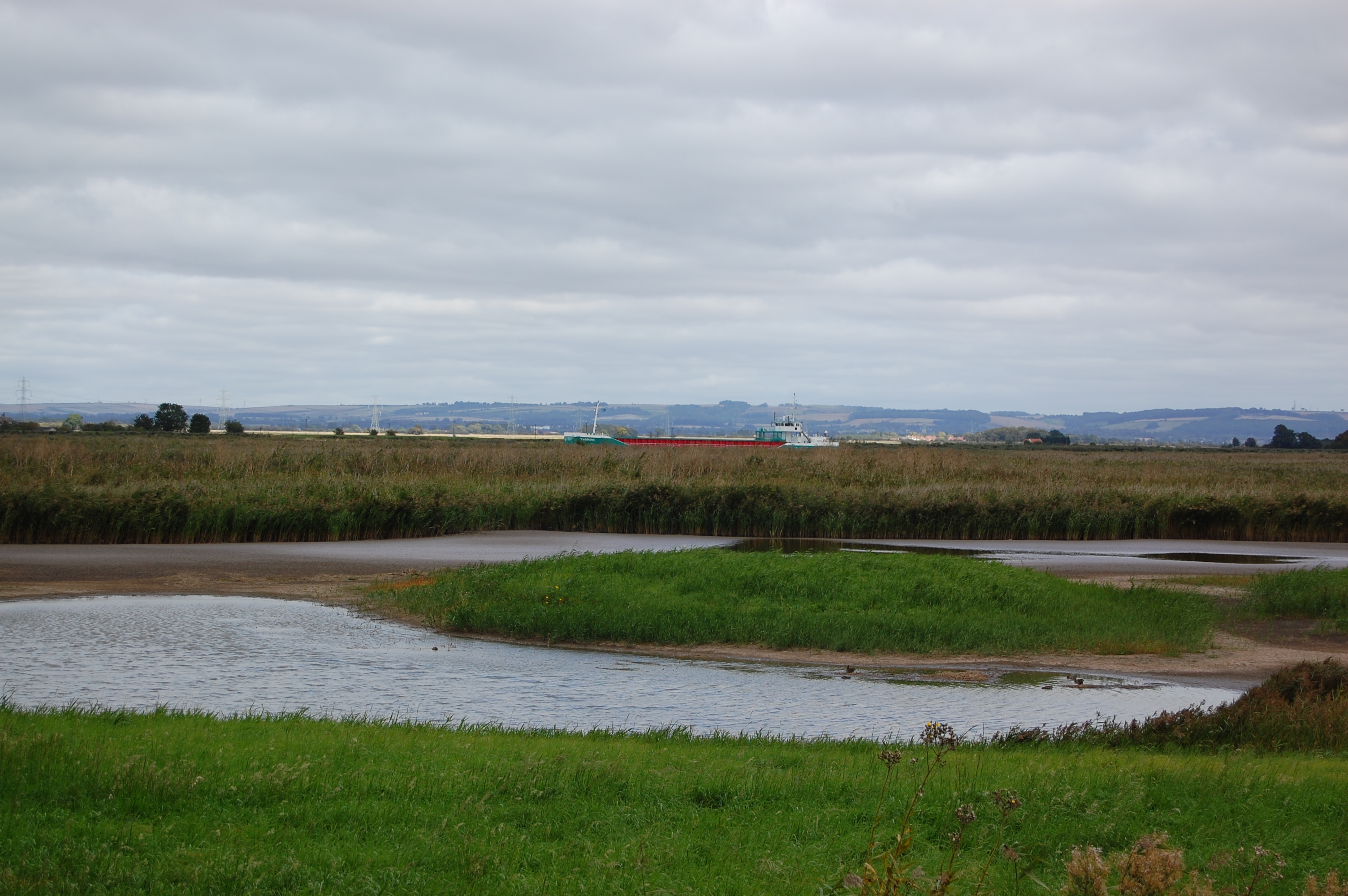 Blacktoft Sands RSPB reserve, East Riding of Yorkshire, England, with a ship passing.